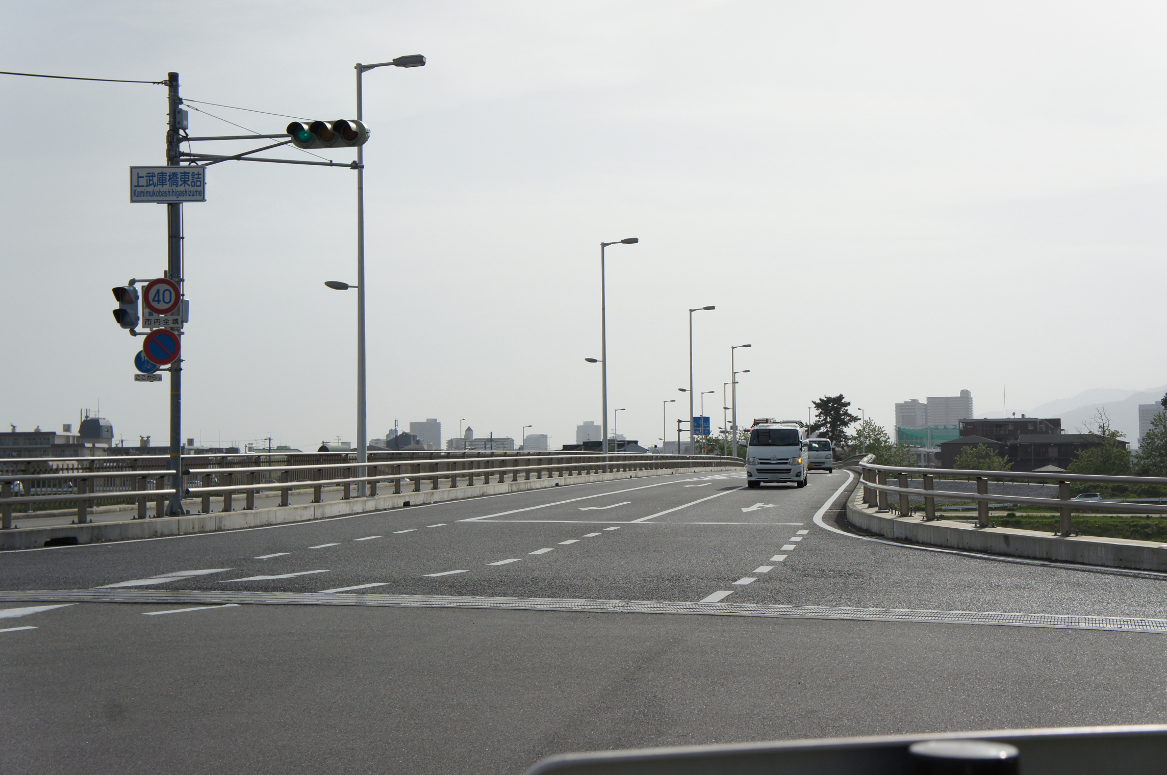 Hyogo prefectural road 606 Kamimukobashi bridge